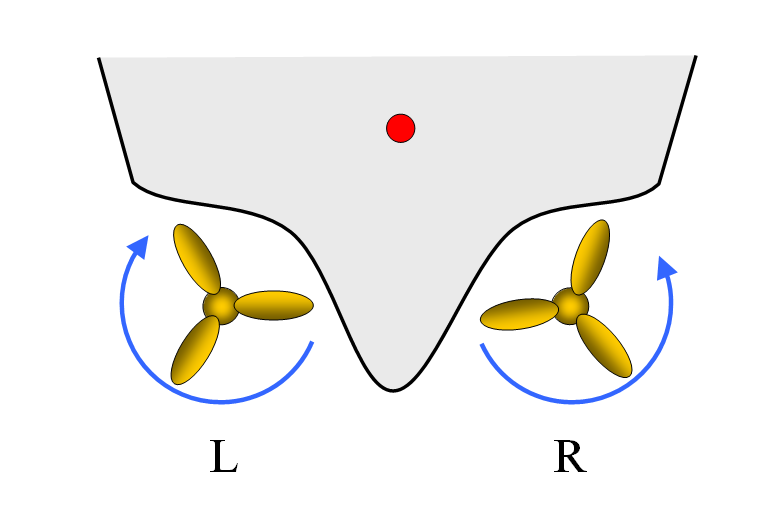 Compensation of the propeller walk of a ship with two propellers